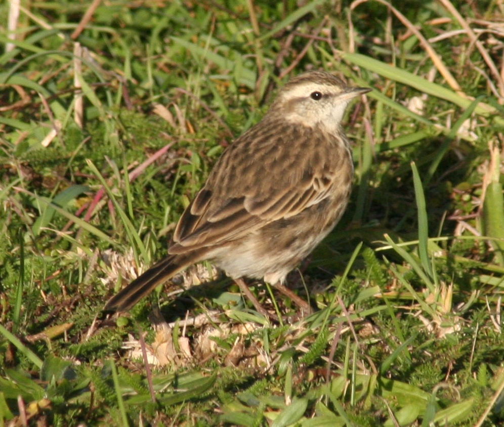 New Zealand Pipit Anthus novaeseelandiae, Kapiti Island, New Zealand